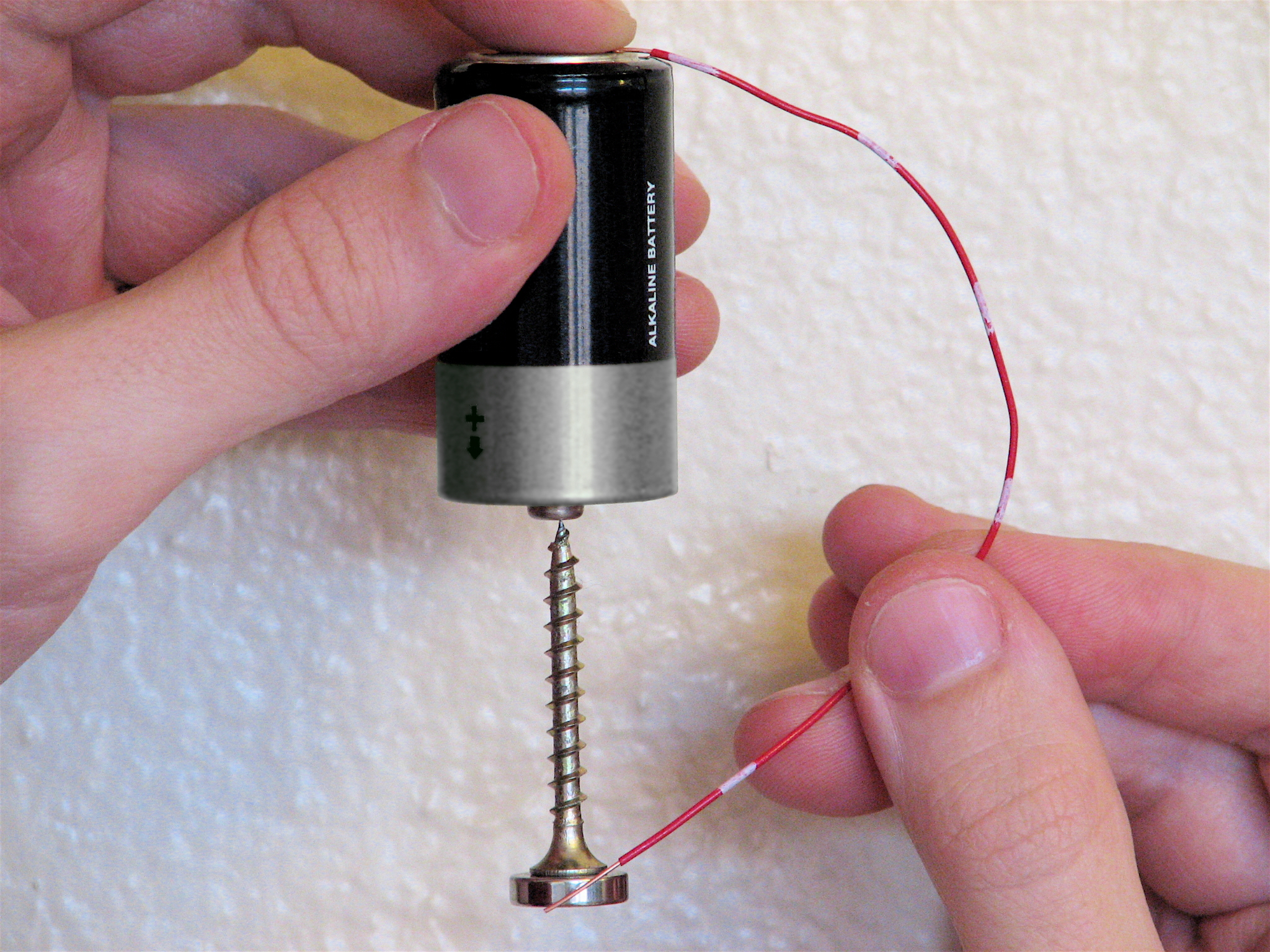 Construction of a simple homopolar electric motor. A neodymium disk magnet is attched to a ferromagnetic screw that is suspended (by magnetic attraction) to one end of an alkaline cell. A wire connects the other terminal of the battery to the edge of the magnet, completing the circuit.